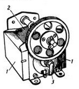 ansharjpatuyt